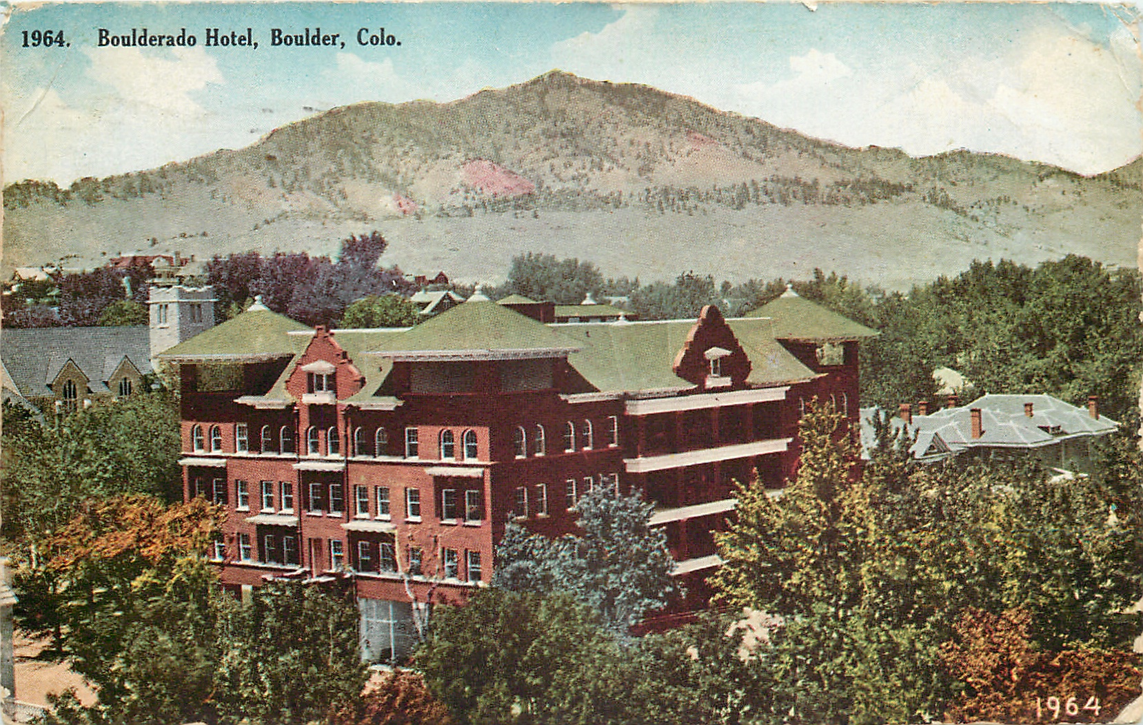 Hotel Boulderado, 1964